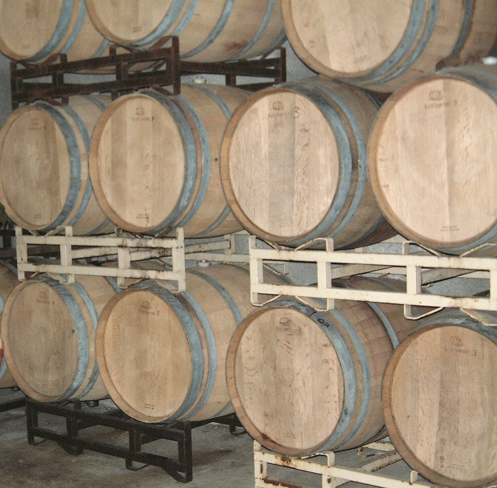 Barrels of 2007 Zinfandel wine fermenting in a wine cave at the Dobra Zemlja winery in Amador County, California.